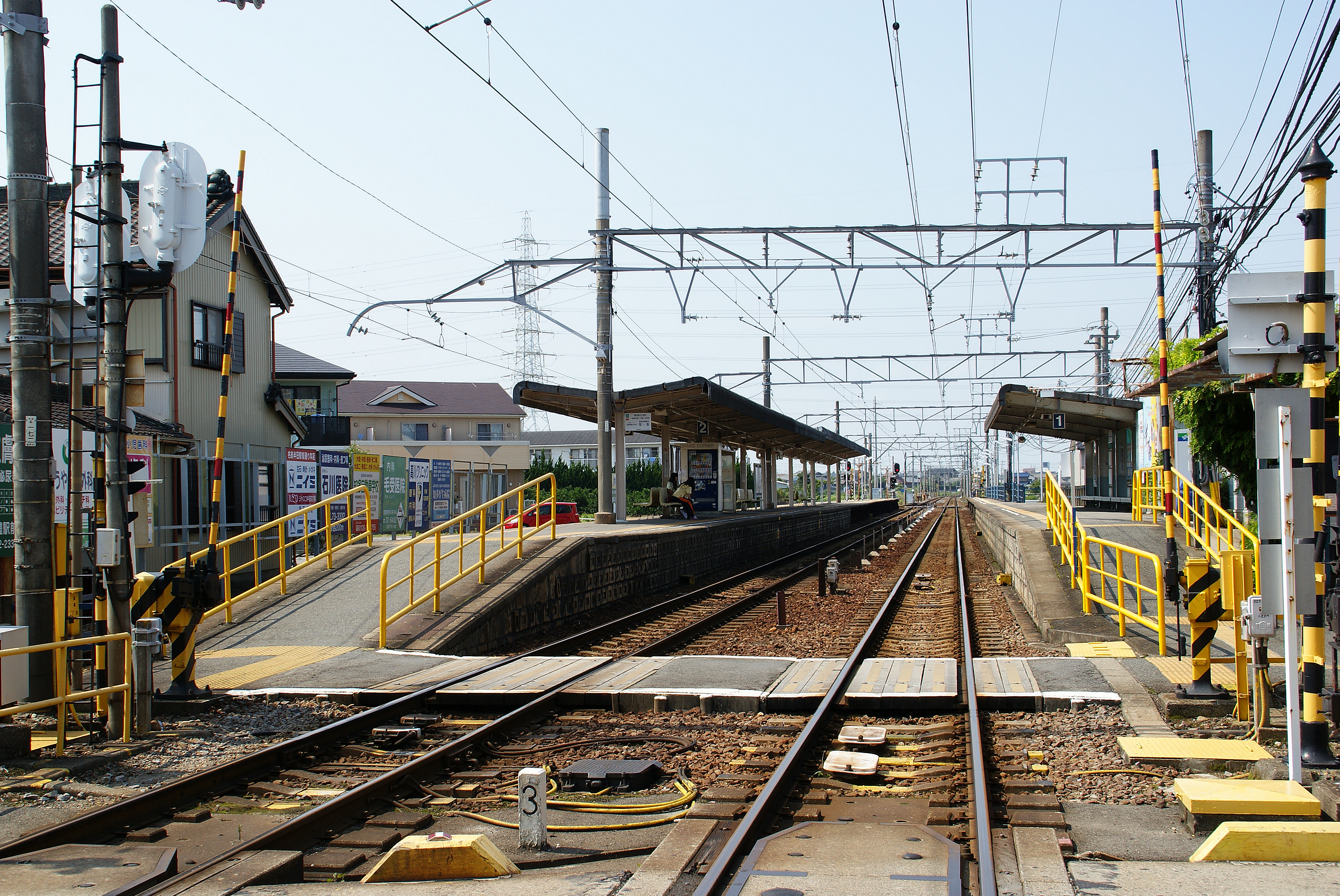 Nagoya Railroad, Fuki Station.(Taketoyo Town, Aichi Prefecture, Japan)